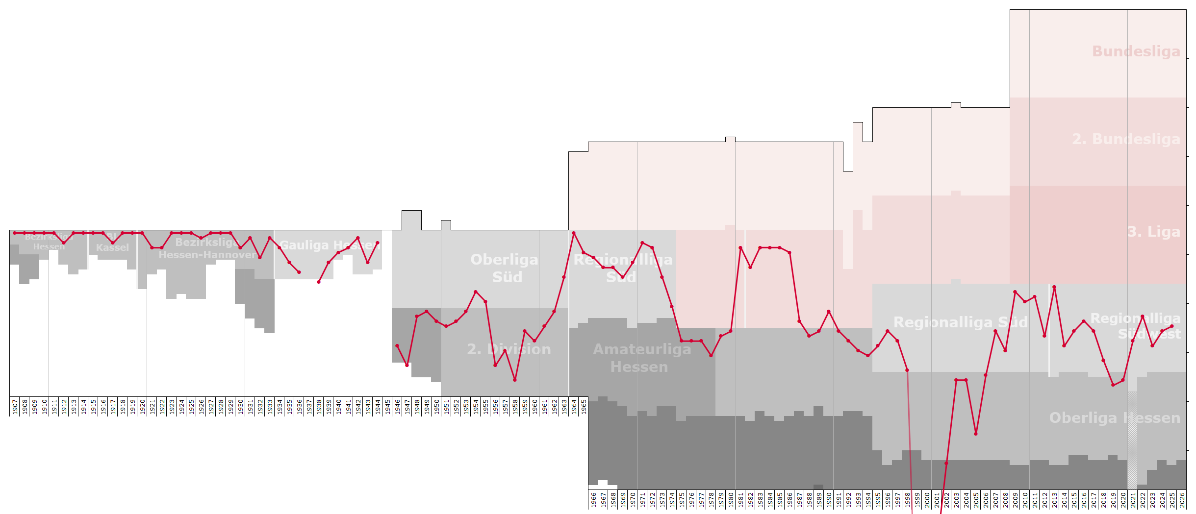 Chart of end-season table positions of Hessen Kassel in the football league system of Germany. Data source: RSSSF, wikipedia, f-archiv.de, fussball.de